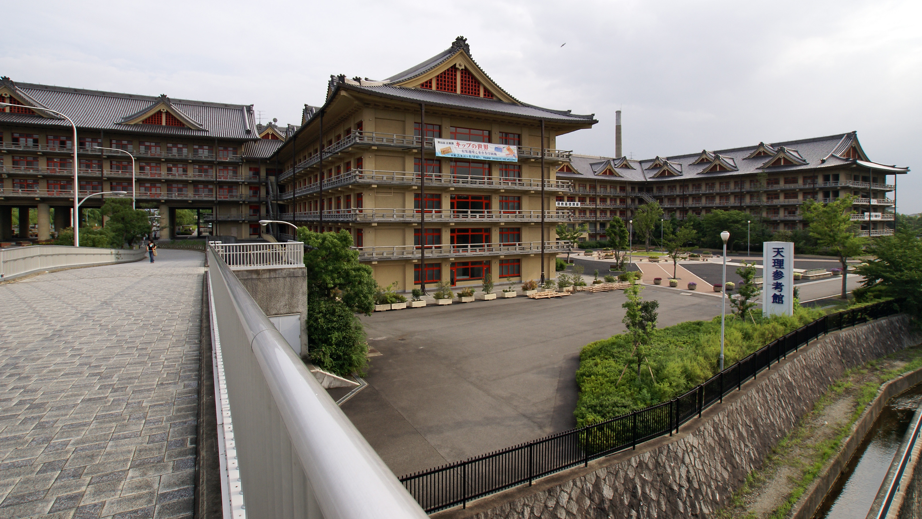 TTenri University Sankokan Museum in Tenri, Nara prefecture, Japan